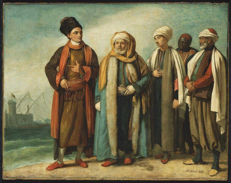 The Ambassador from Tunis with His Attendants as He Appeared in England in 1781.